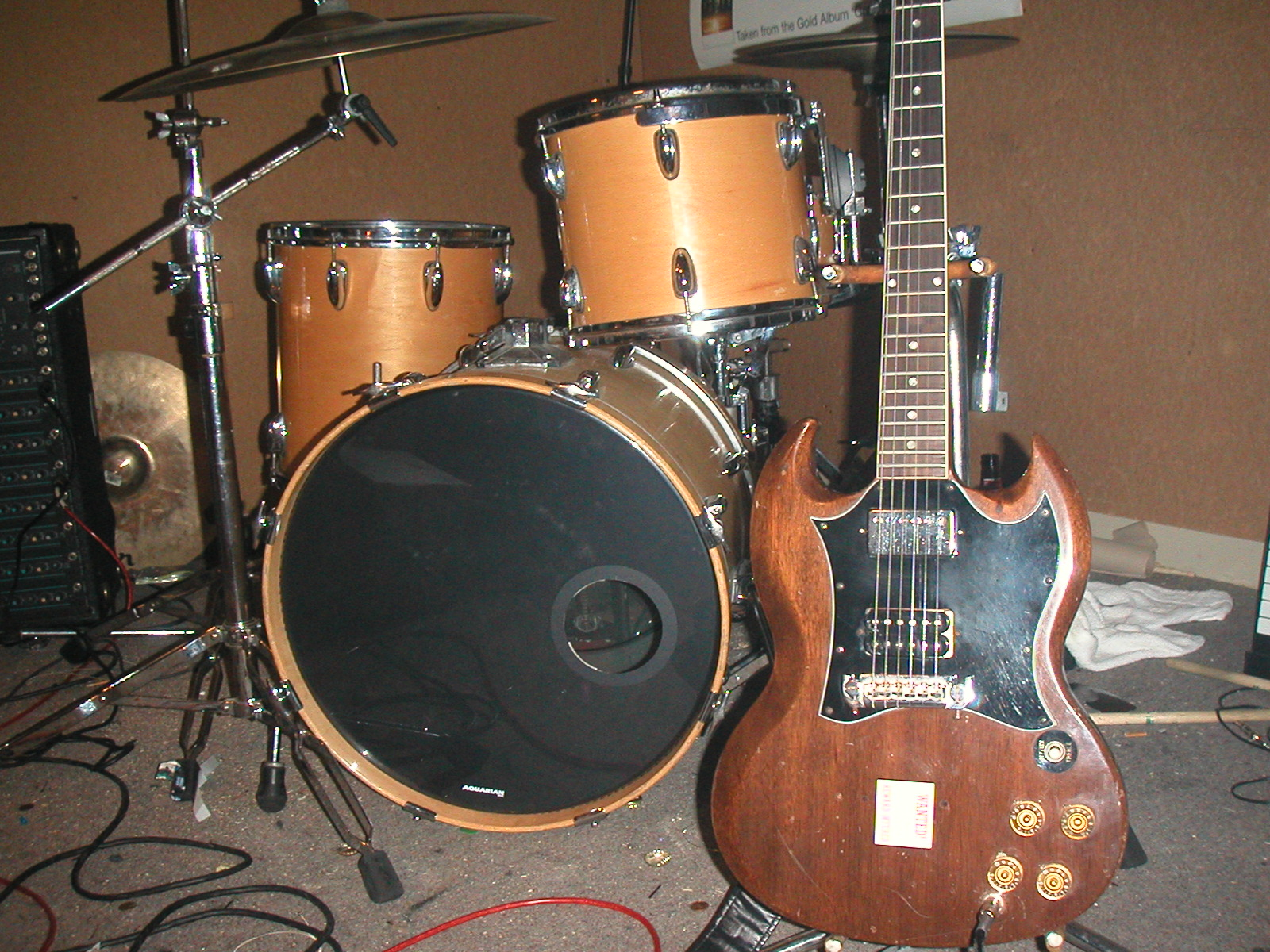 Onalaska Practice on 9-5-2002 (6)